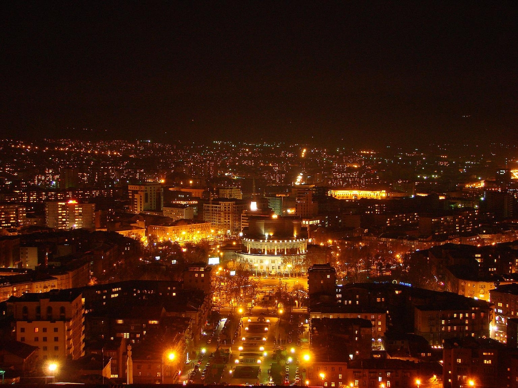 View of Yerevan at Night